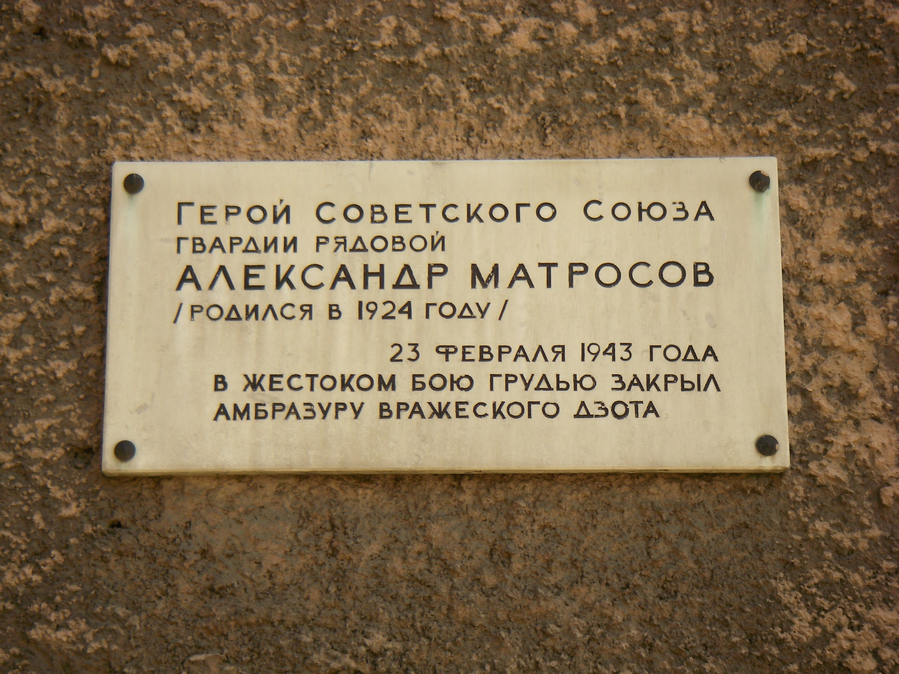 Commemorative plaque in Alexander Matrosov street in Saint-Petersburg